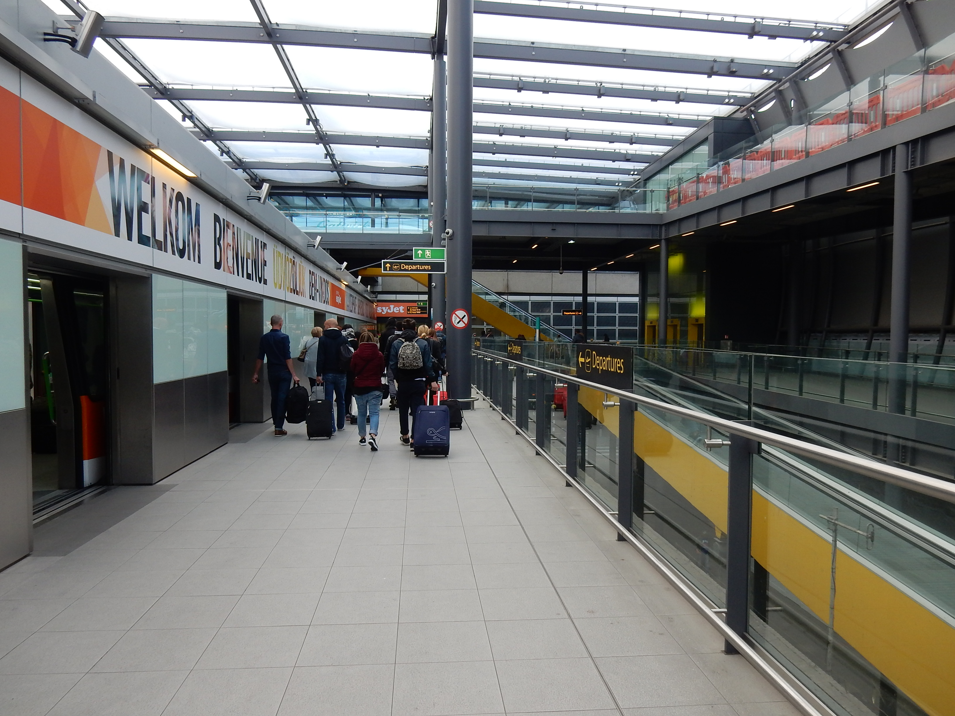 Gatwick Airport North Terminal Shuttle Transit arrival platform looking north in 2016